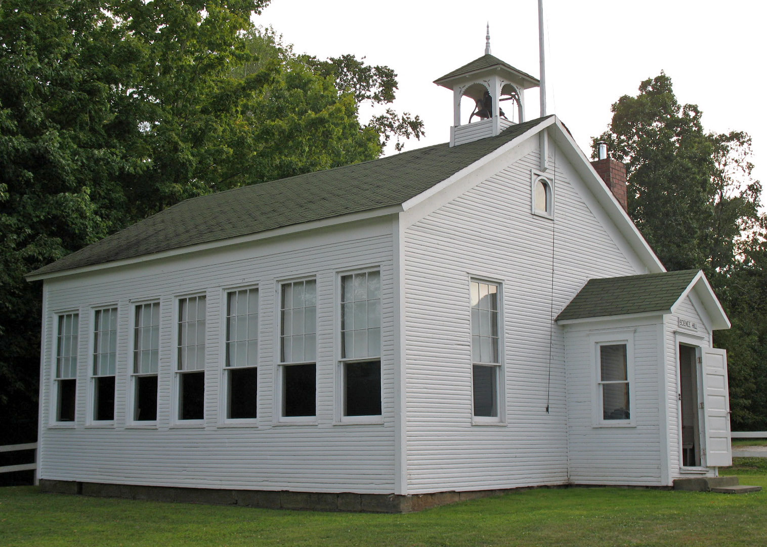 Registered Historic Places in Stark County, Ohio. Science Hill School, 11810 Beeson St. NE, Alliance, Ohio, USA. Photographed 2008-08-25 from the driveway in front of the schoolhouse south of Beeson St.